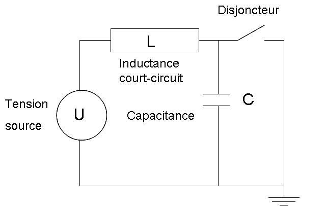 short circuit in electrical network